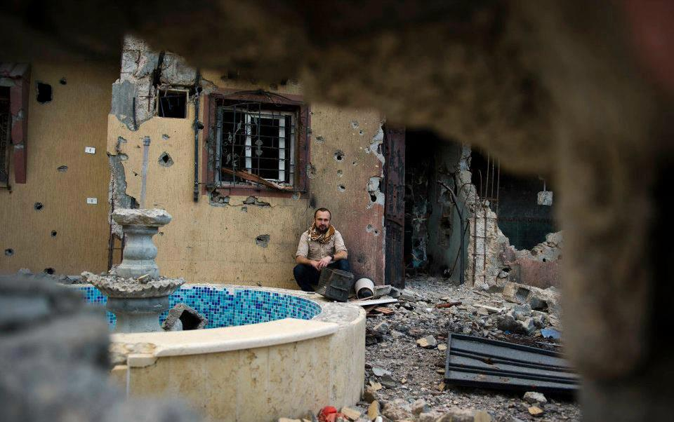 André Liohn in Tripoli Street Misuratah - Libya April 2012